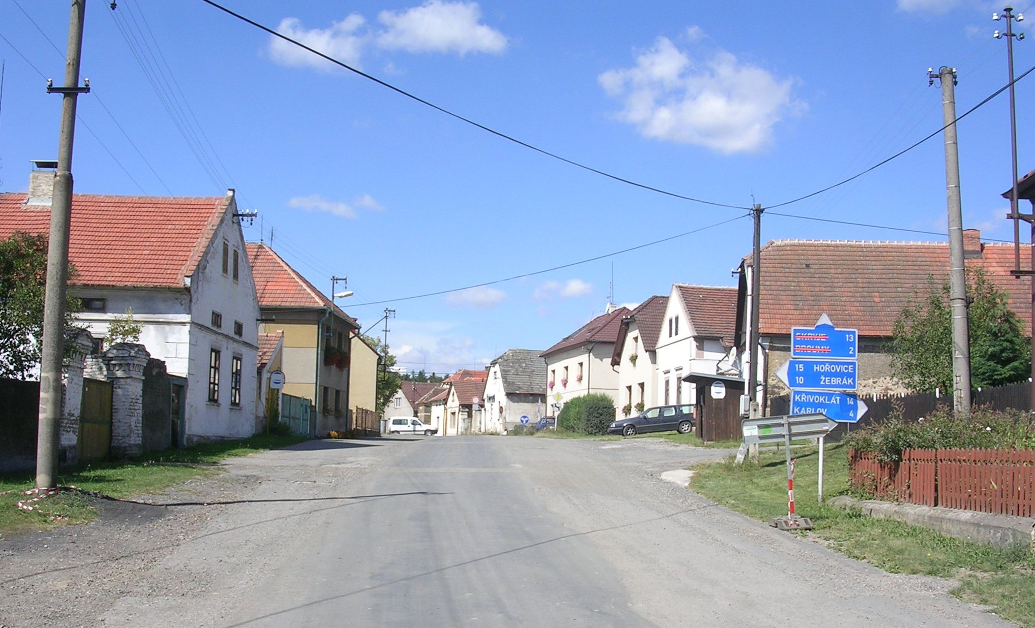 Kublov, Beroun District, Central Bohemian Region, the Czech Republic. A bus stop "Kublov, Na návsi".